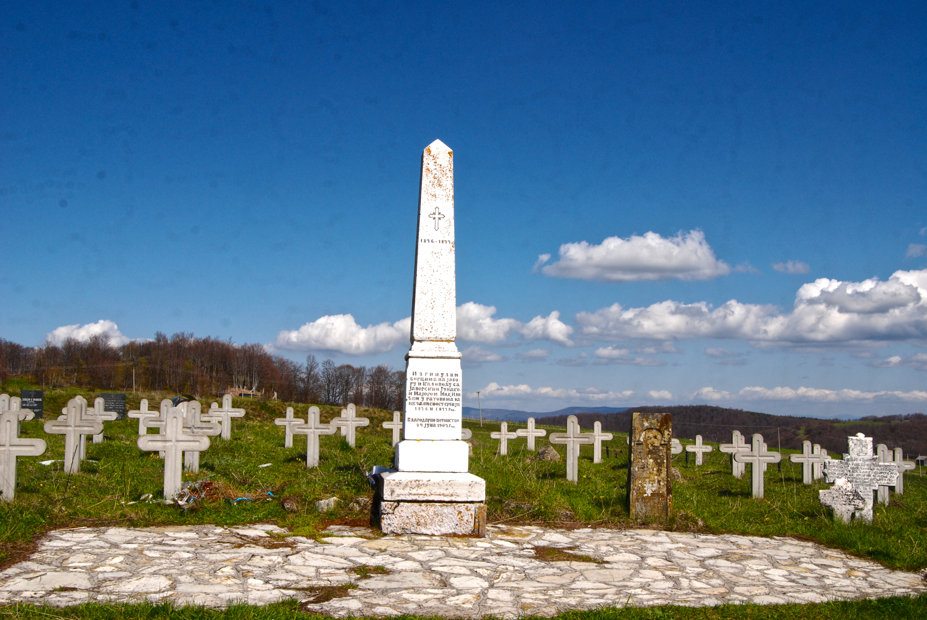 Memorial cemetery (Javor) is located on the mountain Javor, near the town of Ivanjica, Serbia. It is known as monumental mark "Major Ilic", in the central part of the cemetery.Српски (ћирилица): Спомен гробље на Јавору налази се на истоименој планини Јавор недалеко од Ивањице. Познато је и као спомен обележје "Мајор Илић", по споменику мајору, на централном делу гробља.